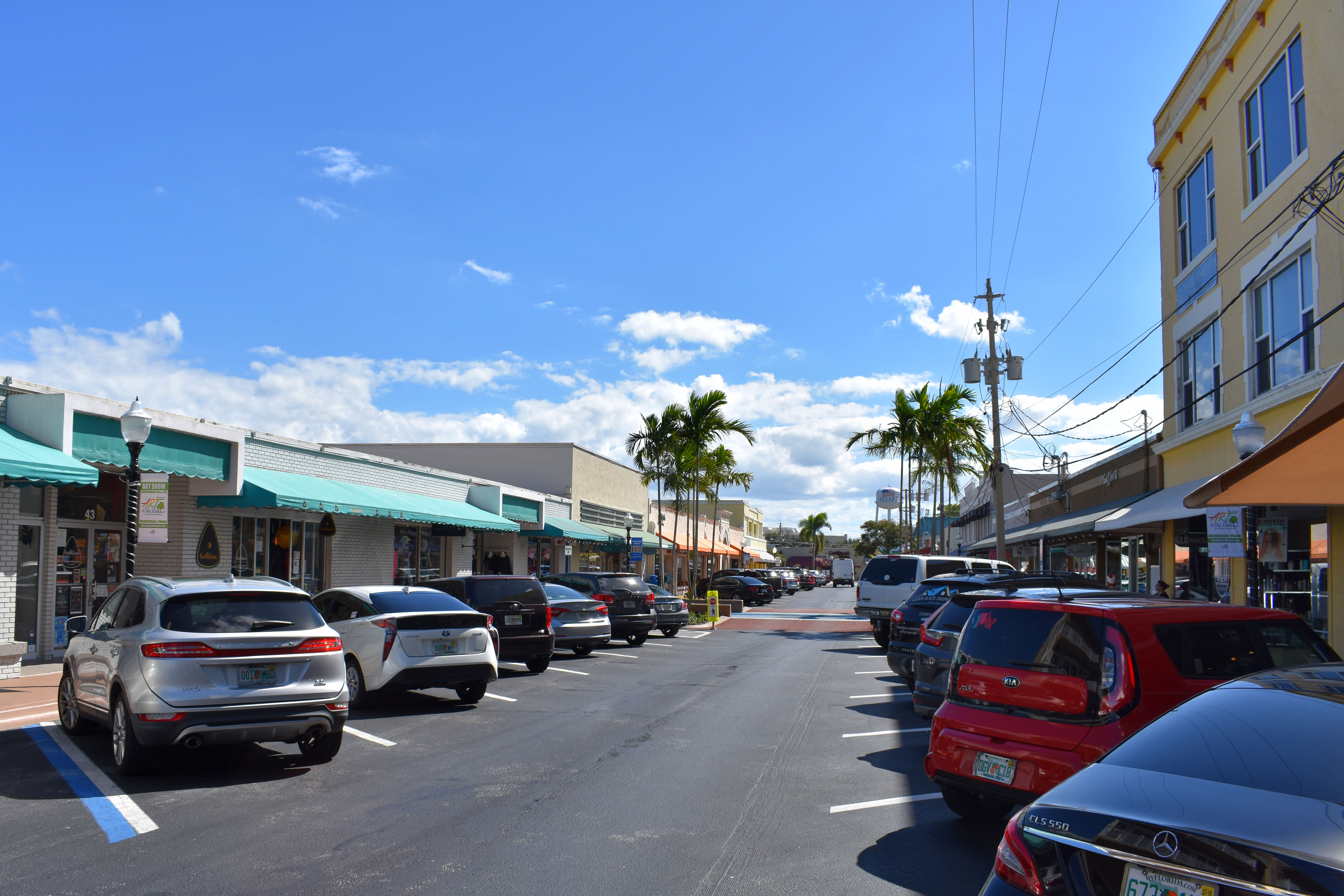 Downtown Stuart, Florida, in 2018.